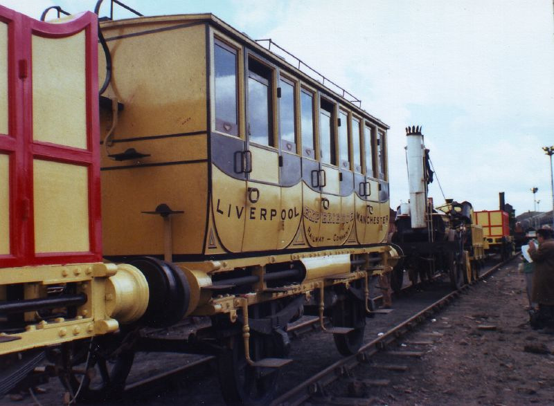 A replica of the Rocket steam locomotive and one of its coaches